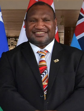 The President of Israel, Reuven Rivlin landed in Fiji, was welcomed on the island in a traditional ceremony and led a first summit meeting of the Pacific nation's. Thursday, February 20, 2020. Credit Photo: Kobi Gideon / GPO. President Rivlin leads historic summit meeting with Pacific Island states.